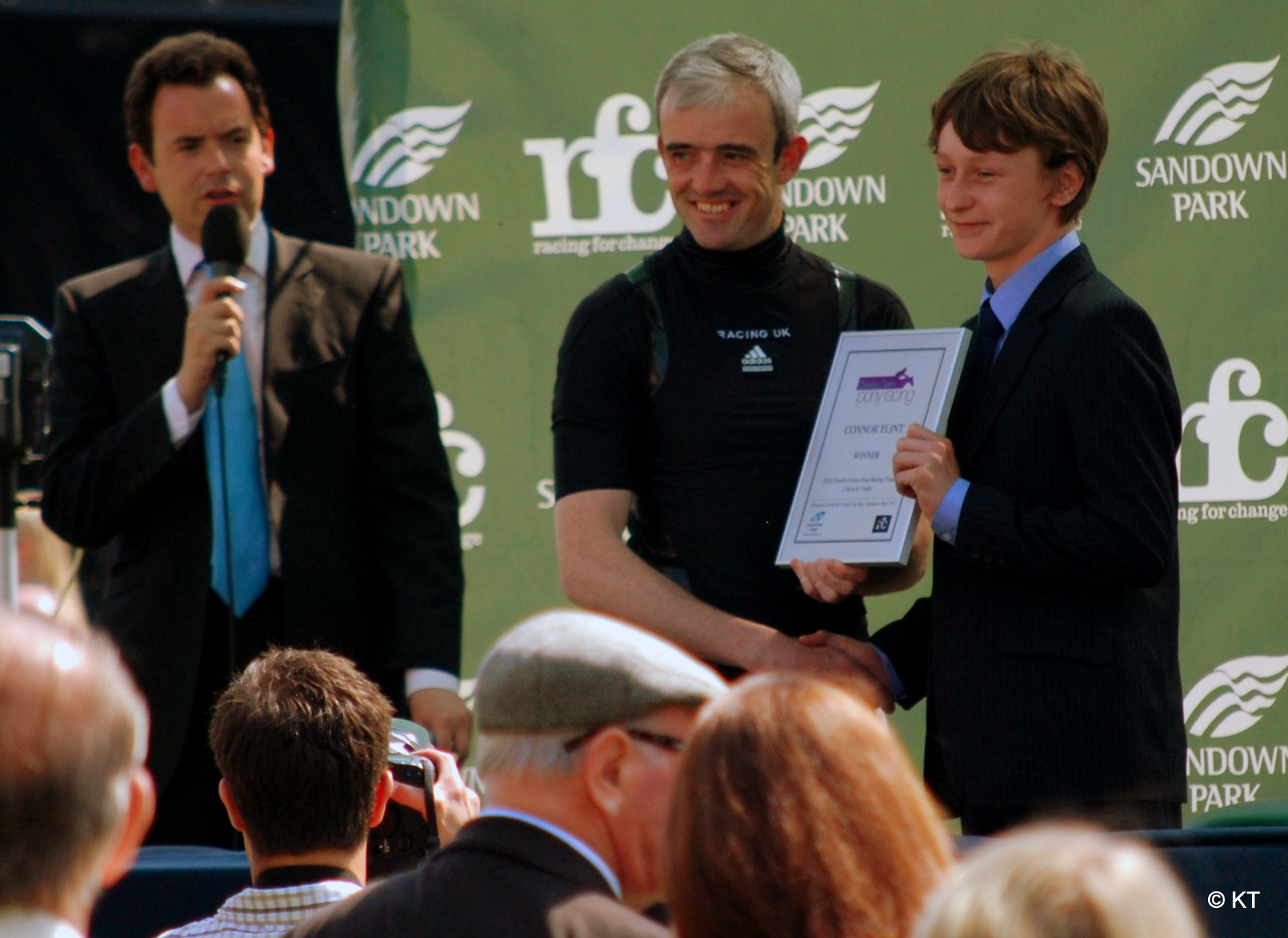 Being given his award by Ruby Walsh. National Hunt racing awards 2010-2011. Sandown April 2011.